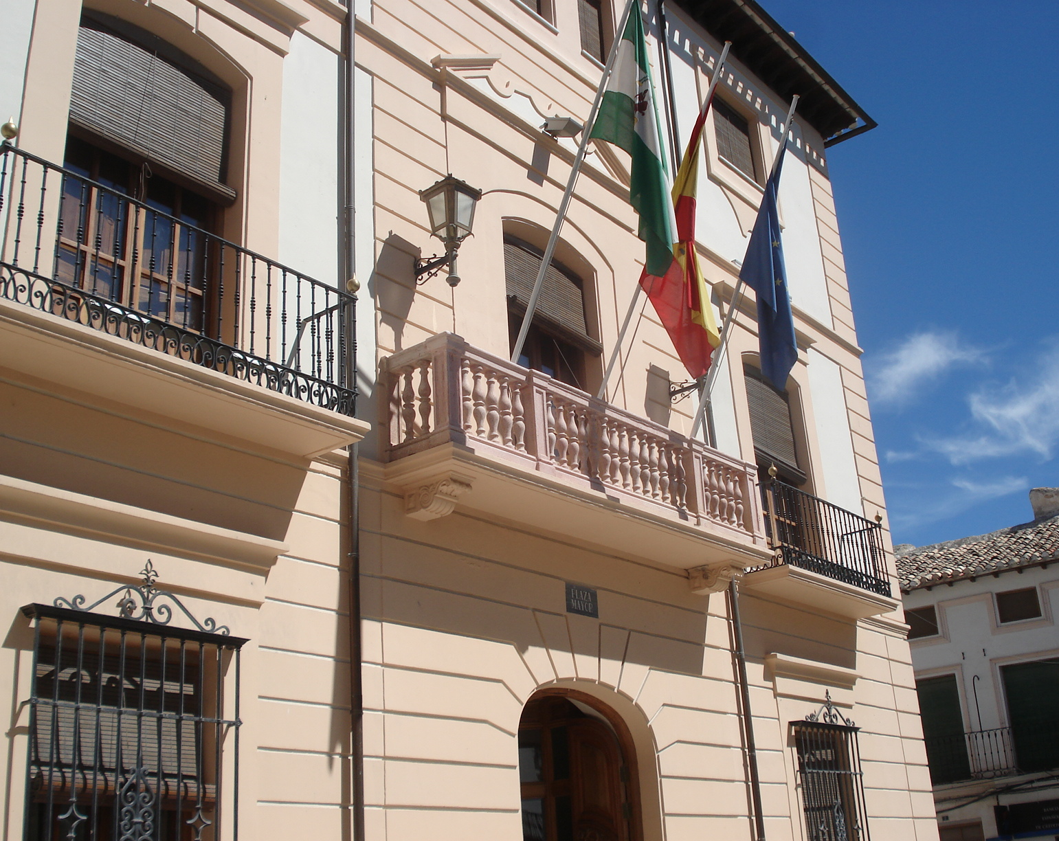 Town hall of Huéscar, in Granada (Spain)